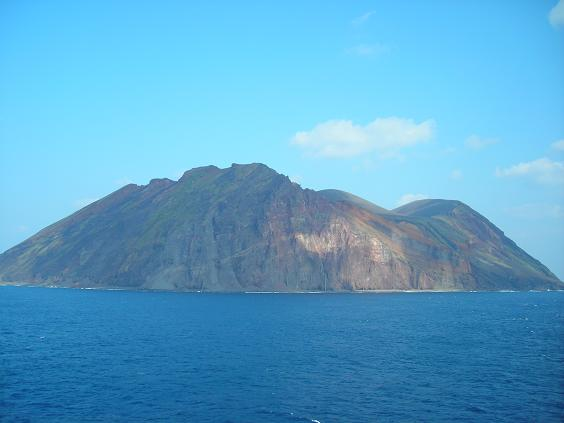 View of Torishima from the West. Izu Islands, Japan.